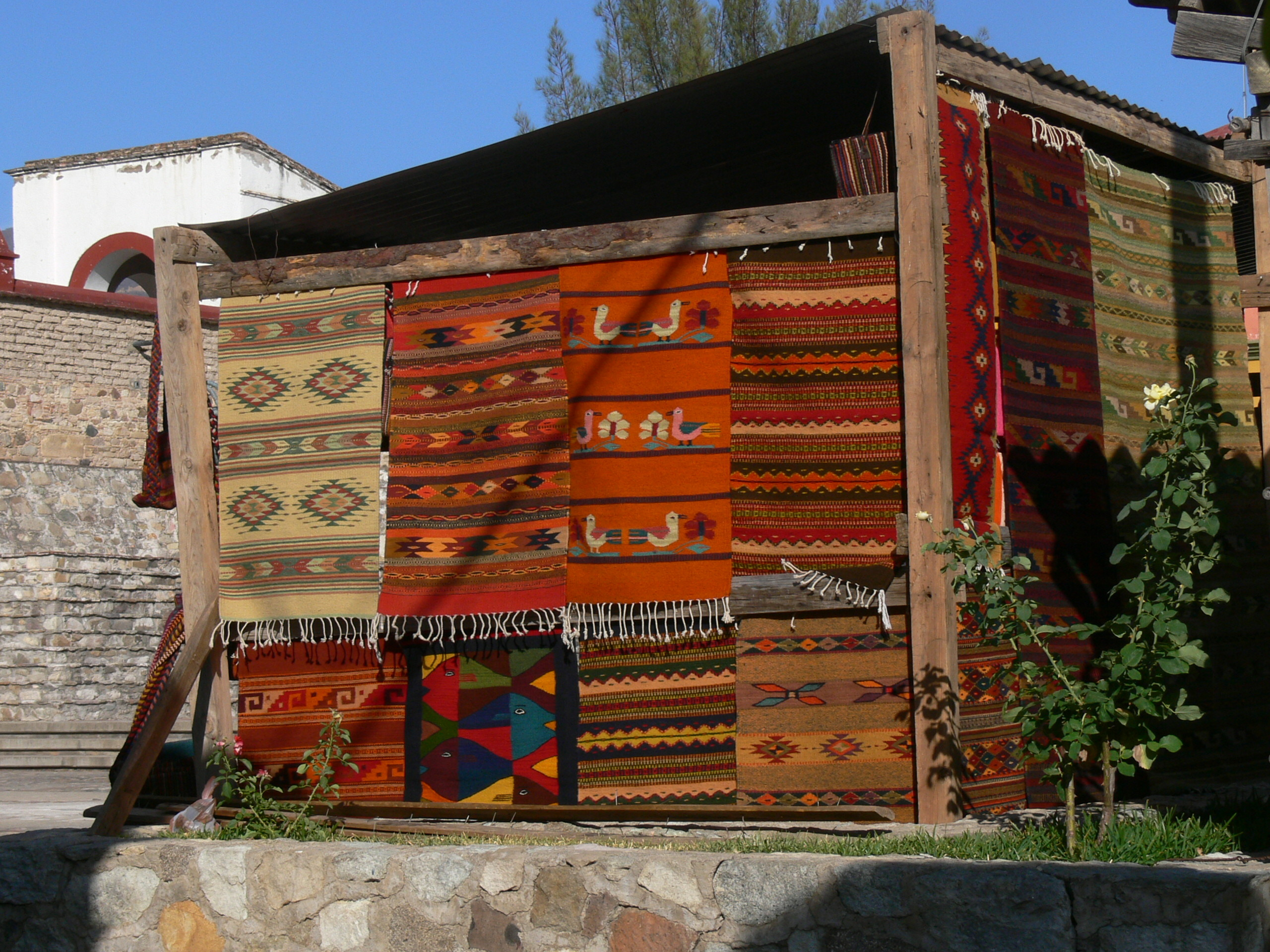 Teotitlán de Valle. Tapestry shop.